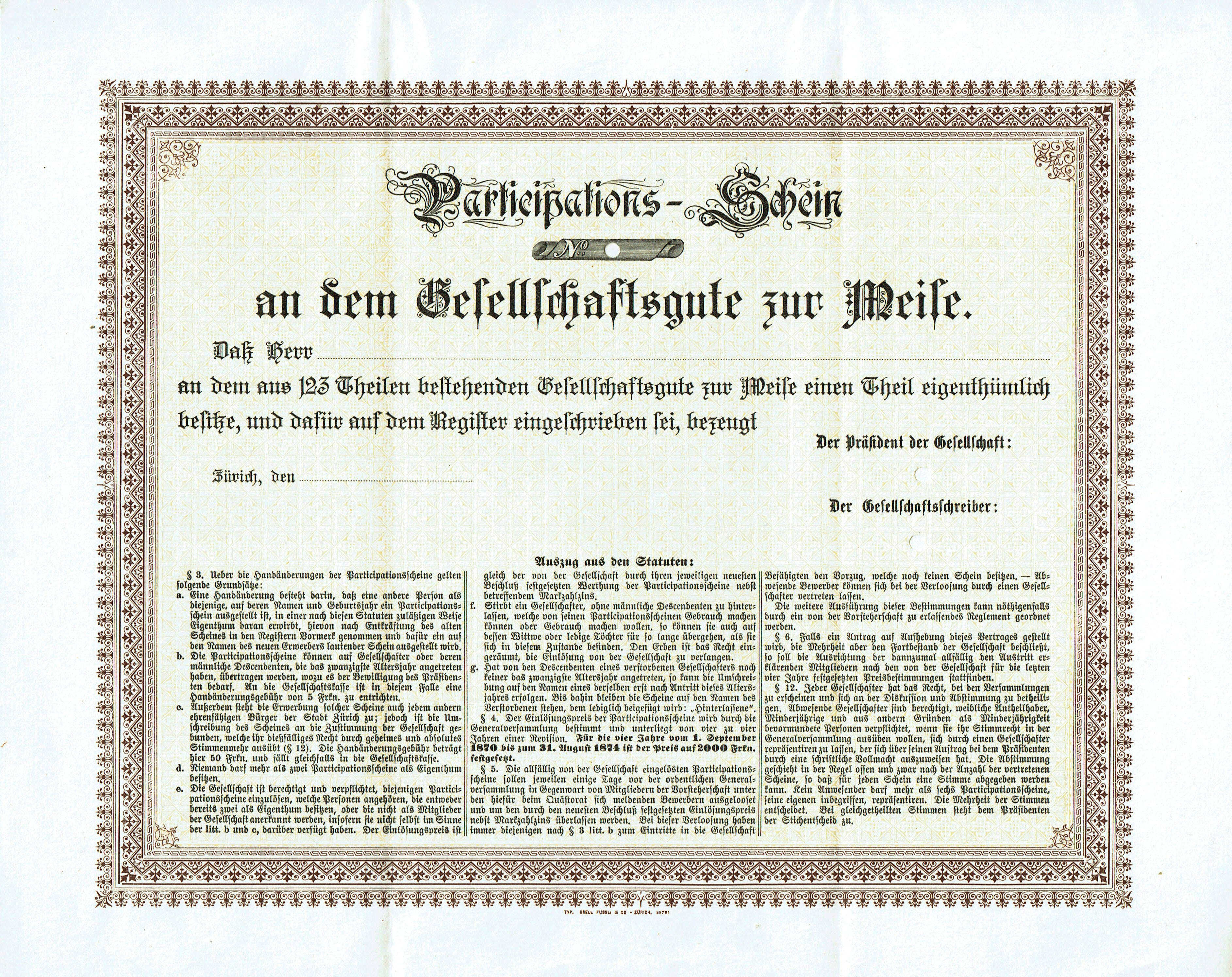 Particification certificate of the Zunft zur Meise, issued 1870, rear side